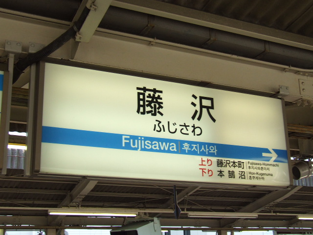 Fujisawa station Signboard,Odakyu Electric Railway,Japan